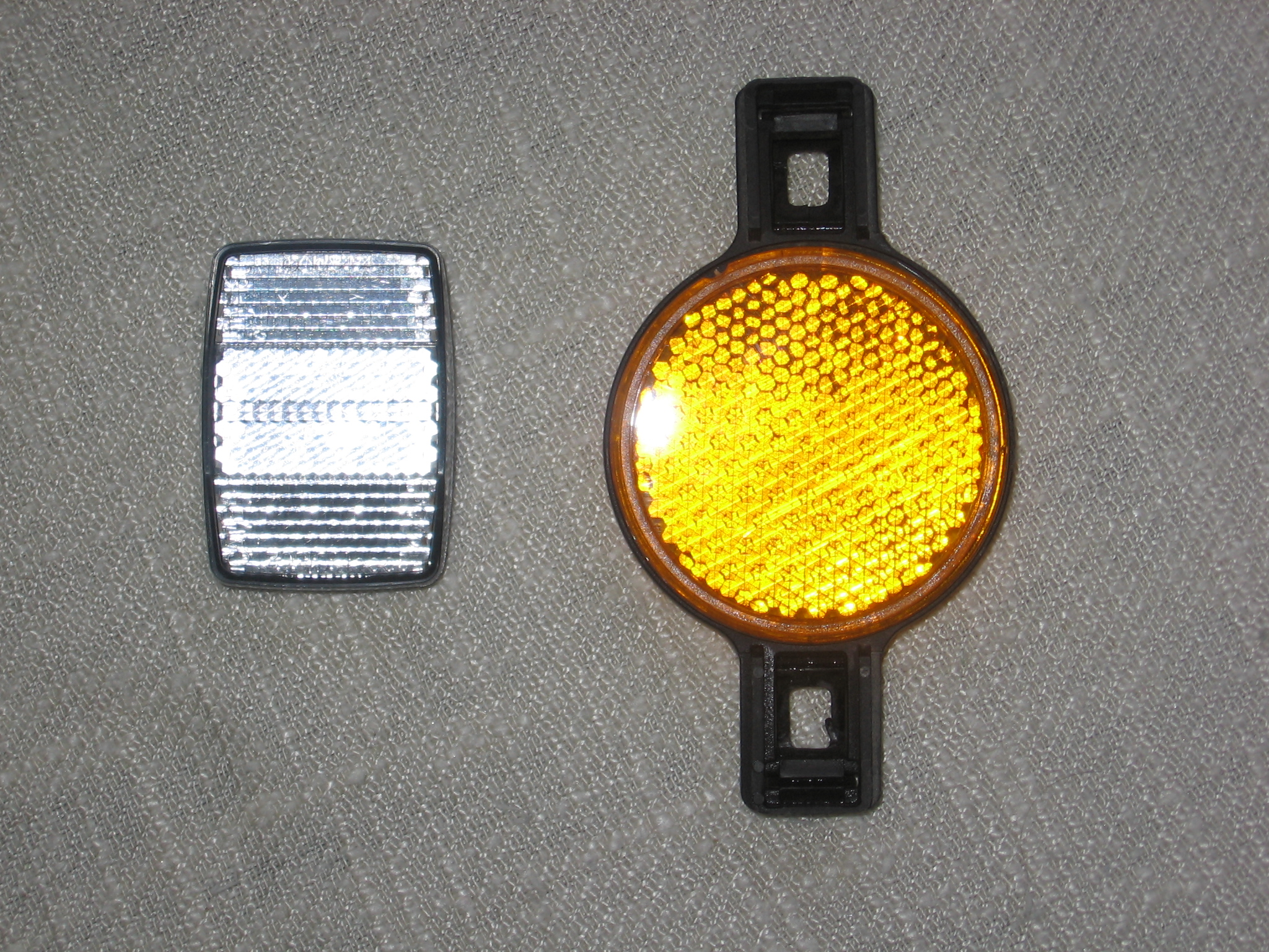 retroreflectors, designed for use on bicycles: white and orange